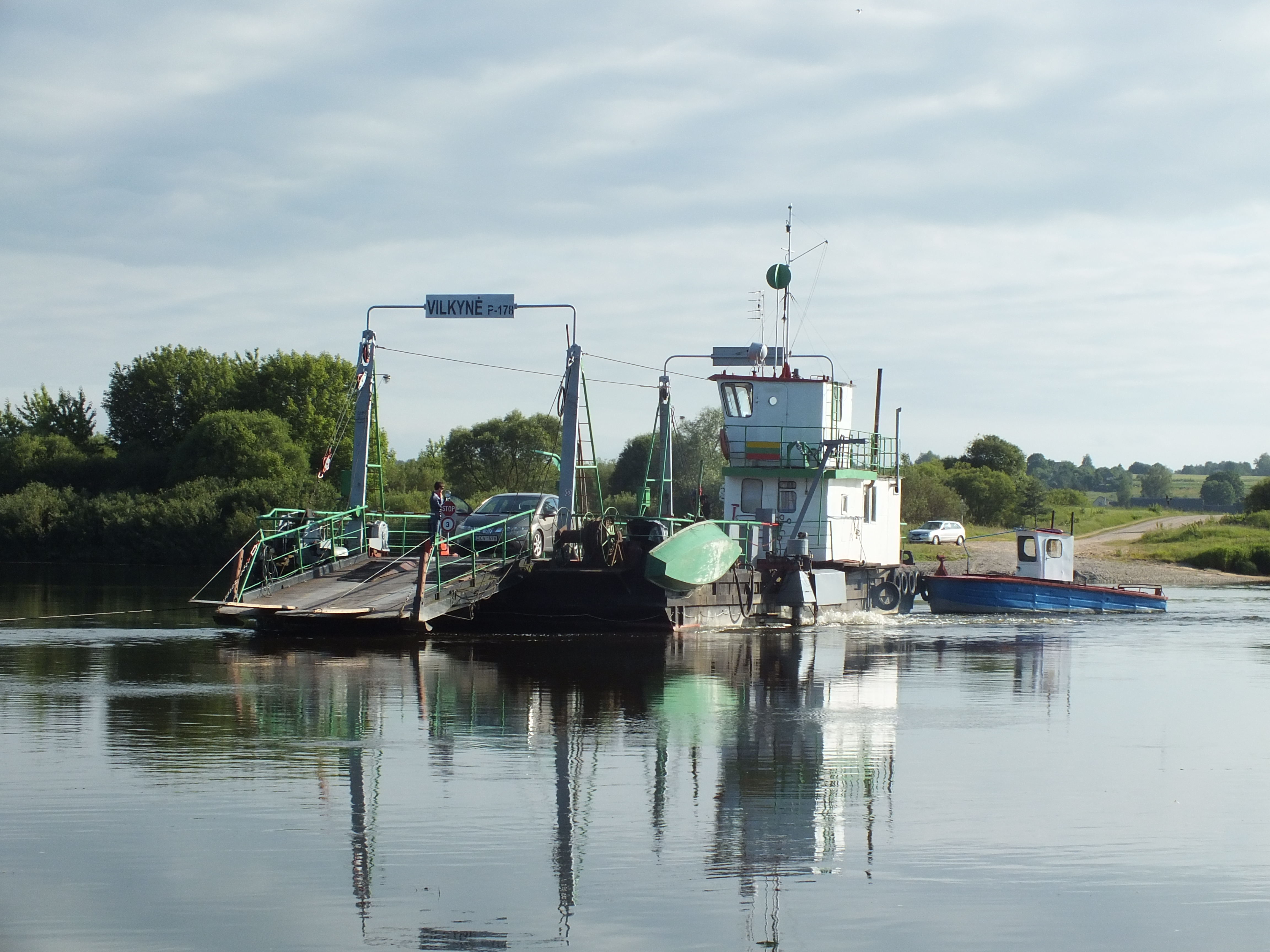 Ferry in the middle of Nemunas